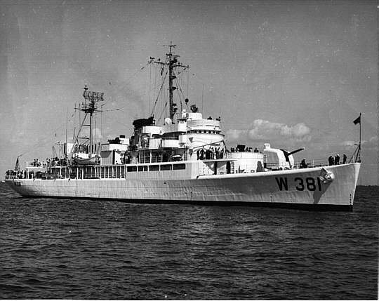 United States Coast Guard cutter USCGC Barataria (WAVP-381), later WHEC-381.